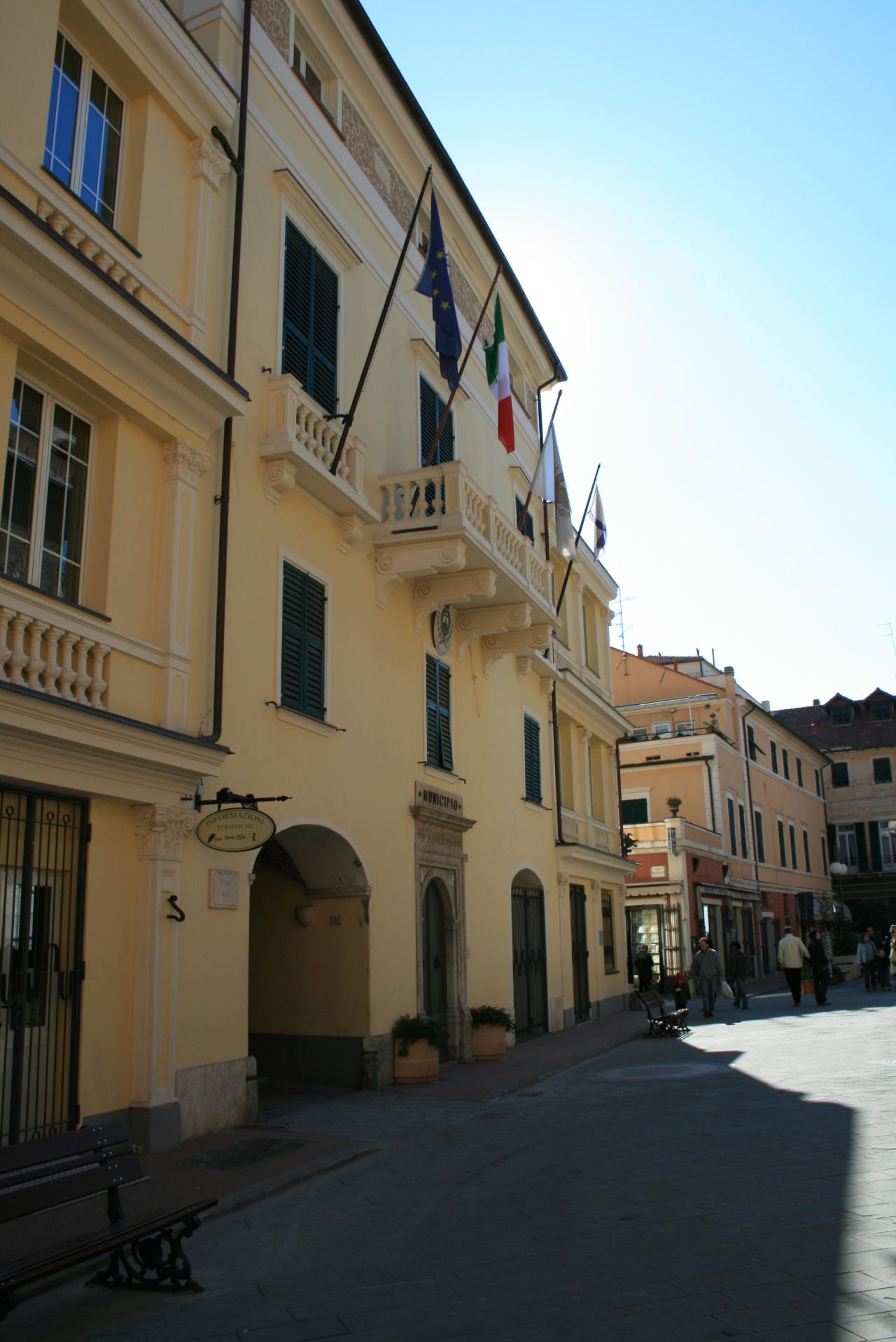 Pietra Ligure City Hall